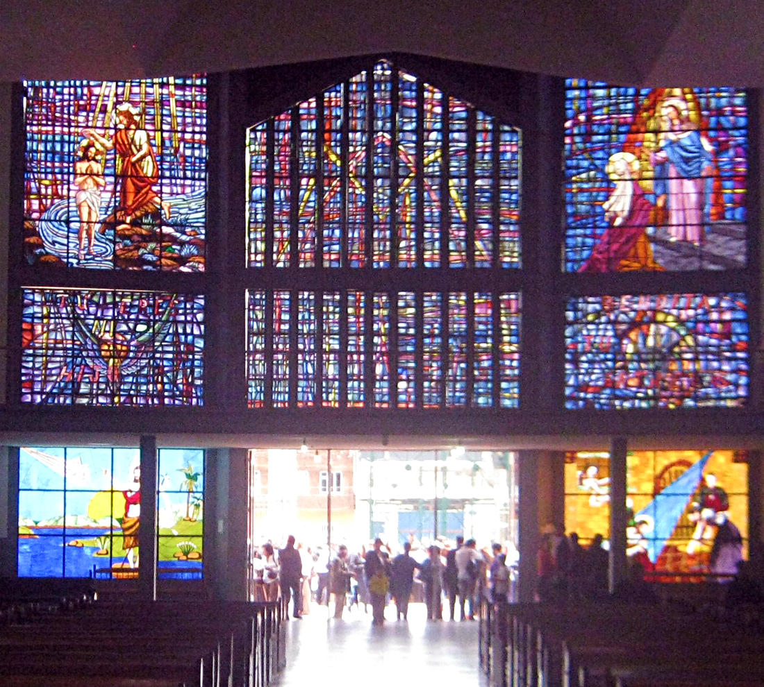 Vitrales de la catedral san juan bautista de la estrada